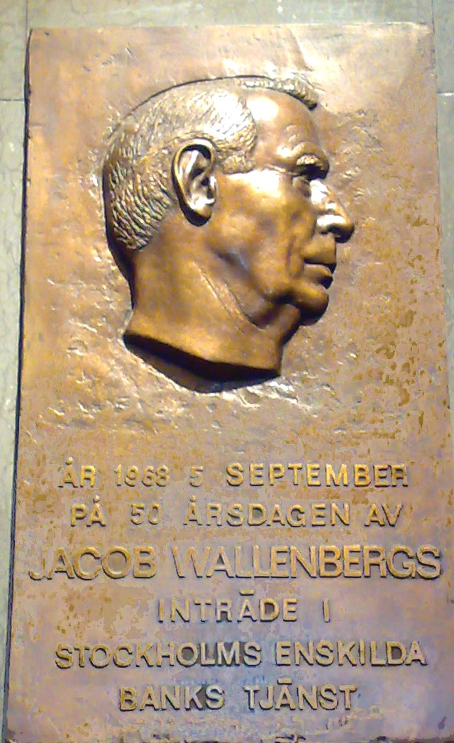 Jacob Wallenberg (senior) (1892–1980); swedish indutrial; memorial in the entrance hall of SEB ABs headquarter, Stockholm